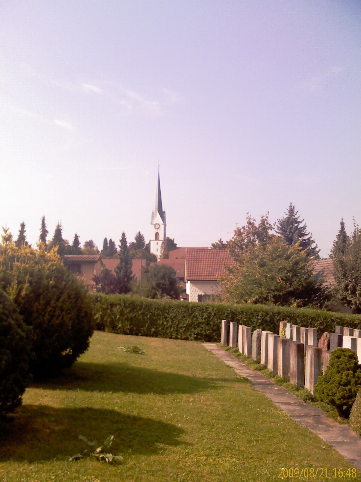 Church and cemetery of Seon, canton of Aargau, SwitzerlandEsperanto: Preĝejo kaj tombejo de Seon, Kantono Argovio, Svislando